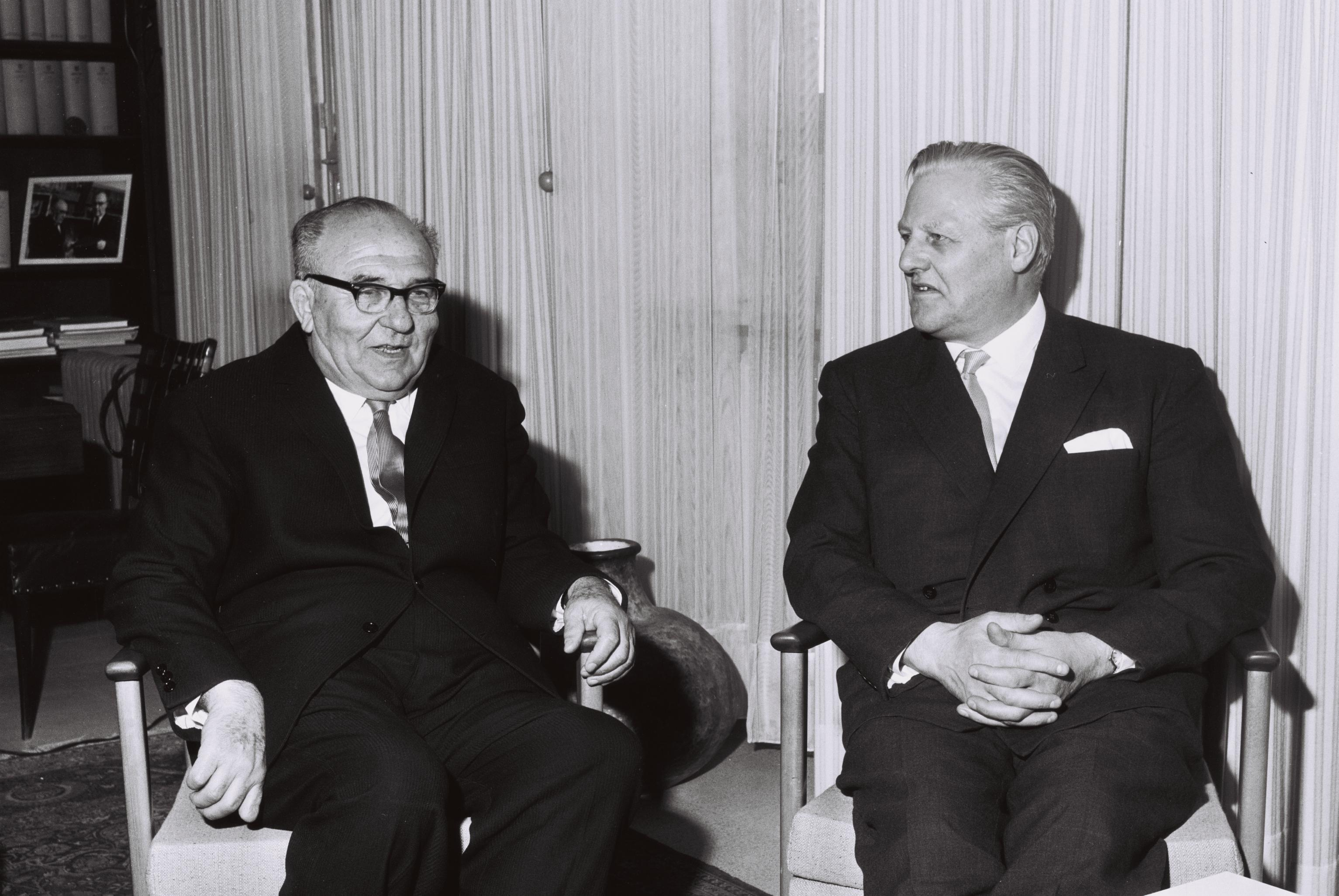 Norwegian Minister of Foreign Affairs John Lyng and Israeli Prime Minister Levi Eshkol, April 10, '67.